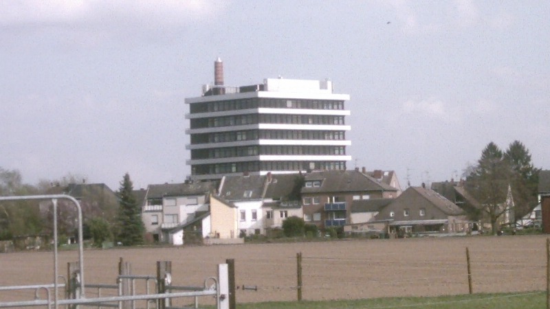 Former Kaiser's Administration Building, Hoser, Viersen, Germany